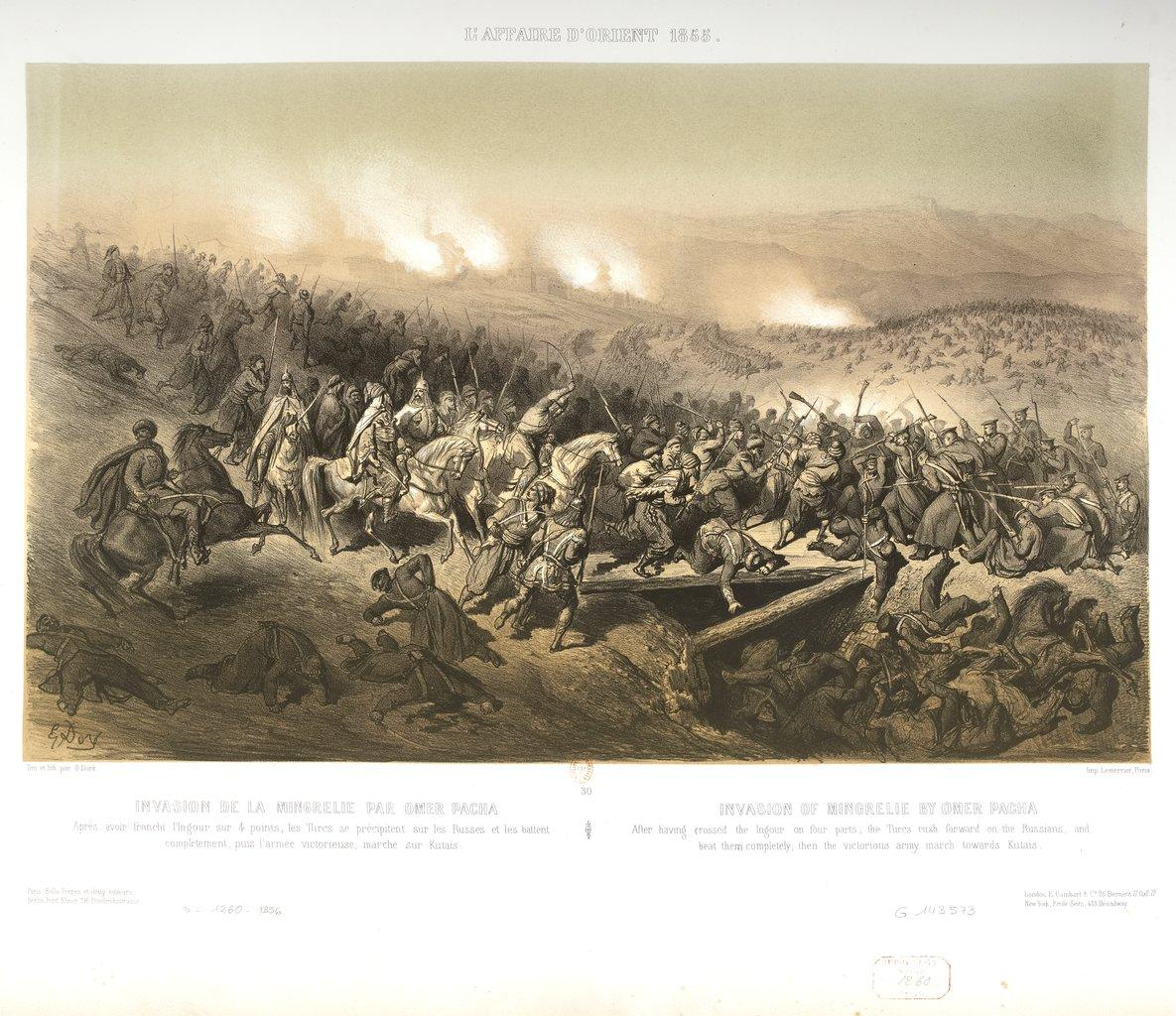 Invasion of Mingrelia by Omar Pasha. The Ottoman army crosses the Inguri River into Mingrelia to advance further on Kutaisi in western Georgia. An episode of the Crimean War.